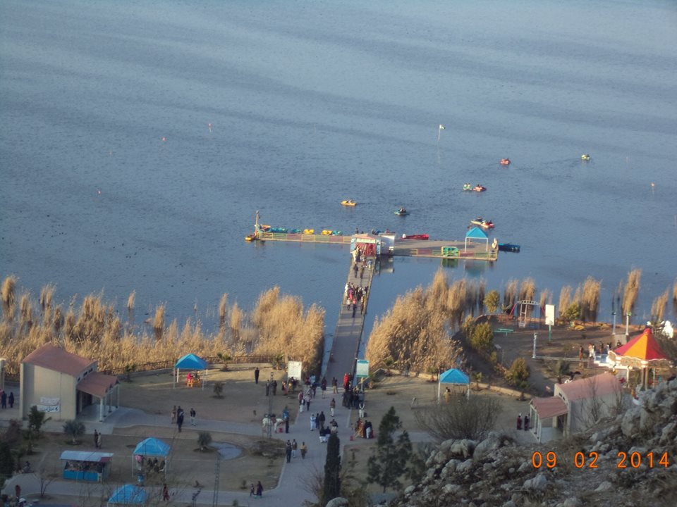 Mountain view, and landscapes at Kalarkahar and Muree